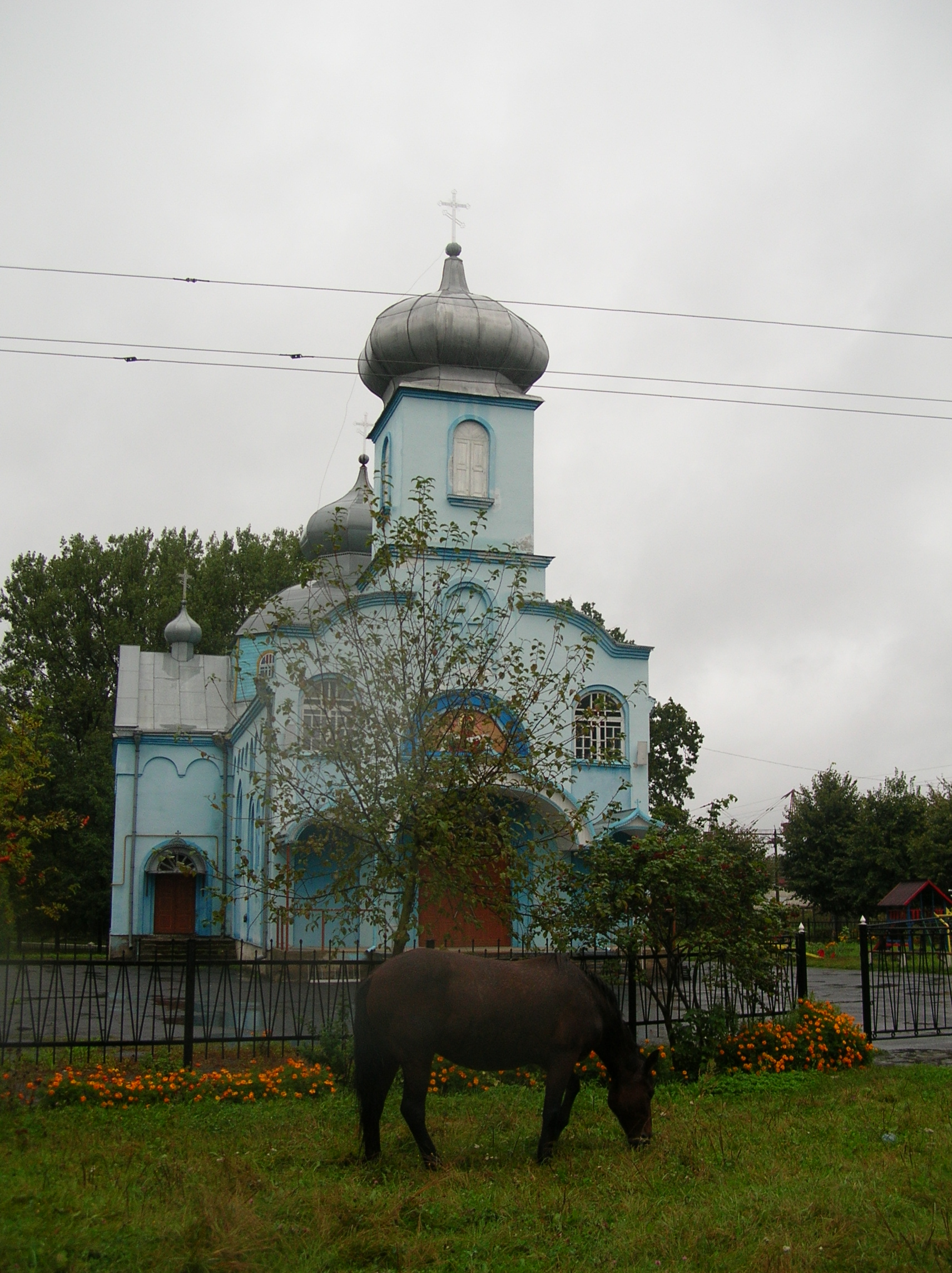 Eastern Orthodox church in Kivertsi, Ukrainian Orthodox Church - Kiev Patriarchate and horse